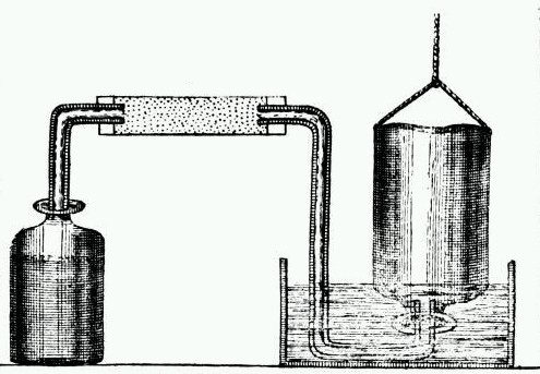 Scan of a drawing of Cavendish's apparatus for making hydrogen gas